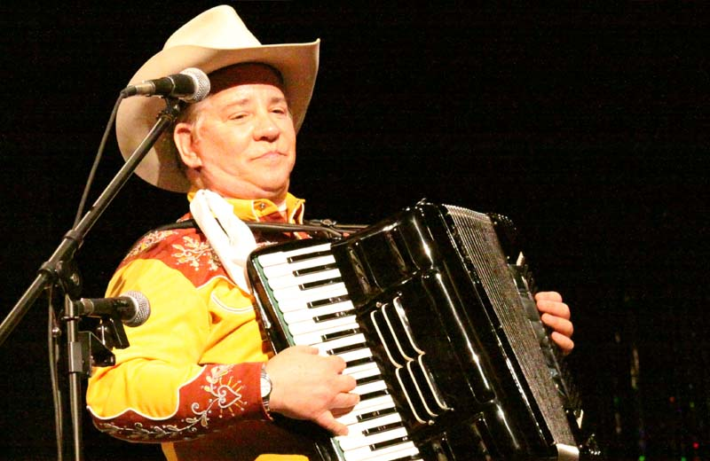 Joey the Cowpolka King (Joey Miskulin) performs at the Poncan Theater in Ponca City, Oklahoma on November 7, 2008. Any use of this photo must include a photo attribution to Hugh Pickens and a link to Hugh Pickens.